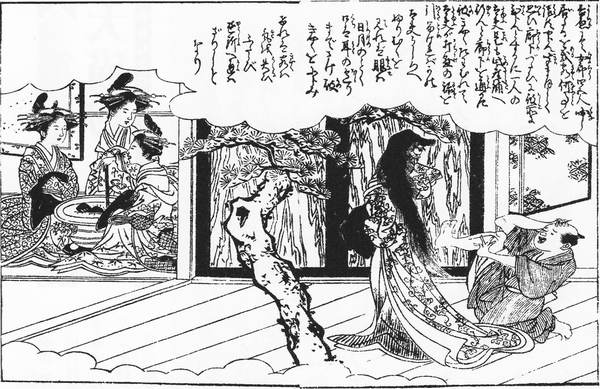 Yoshiwara no Kaijo from Ehon-Sayo-Shigure